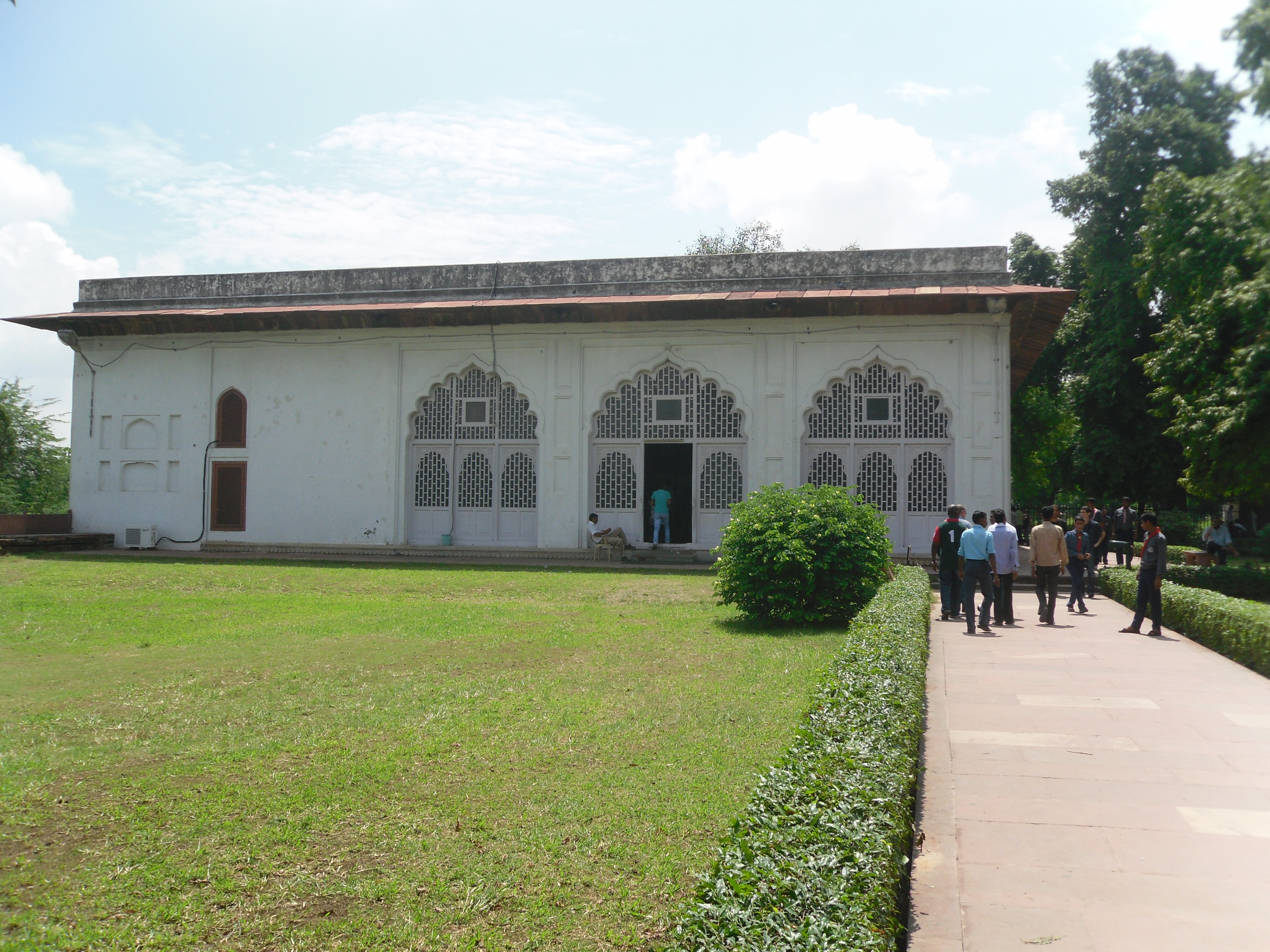 Mumtaz Mahal inside Red Fort